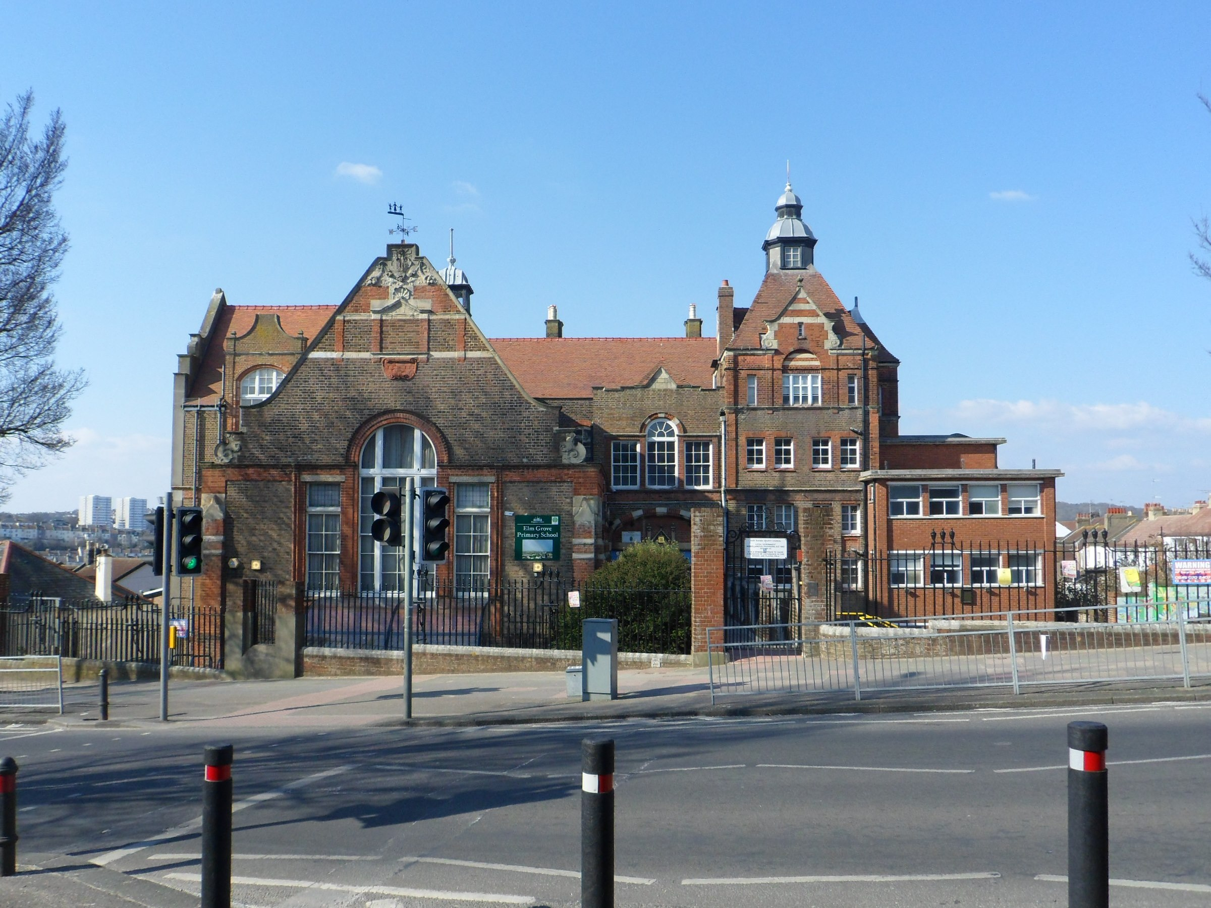 Elm Grove Primary School, Elm Grove, Brighton, City of Brighton and Hove, England. Built as a Board School in 1893 by Thomas Simpson. Now part of City College Brighton & Hove.